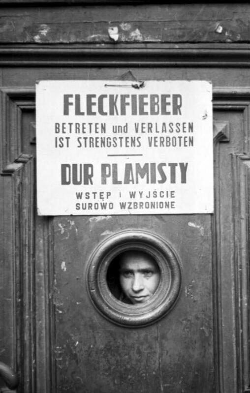 Warsaw Ghetto